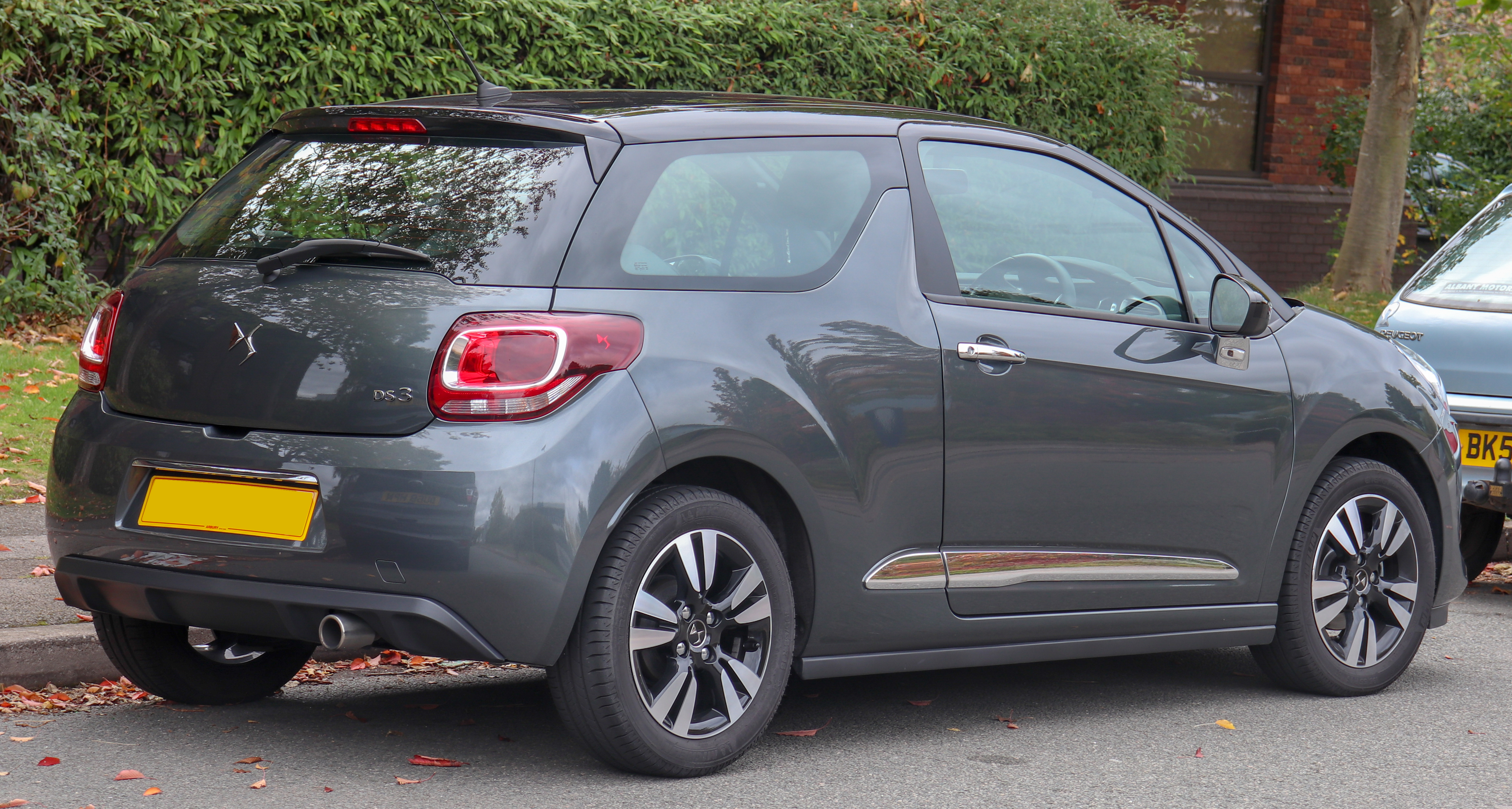 2017 DS 3 Chic PureTech 1.2 Rear Taken in Leamington Spa